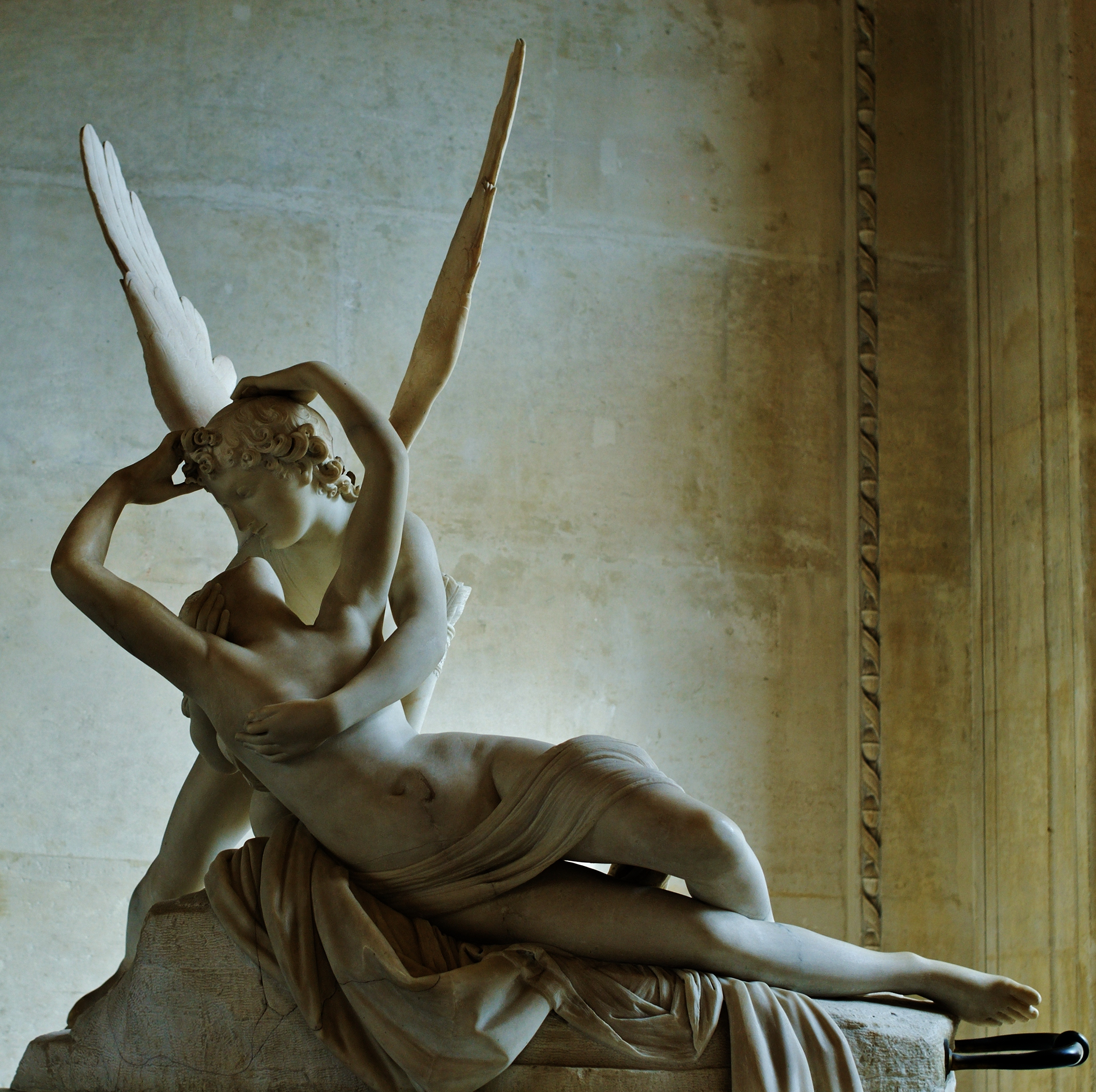 Psyché ranimée par le baiser de l'Amour (Psyche revived by the kiss of Love). Marble, 1793.